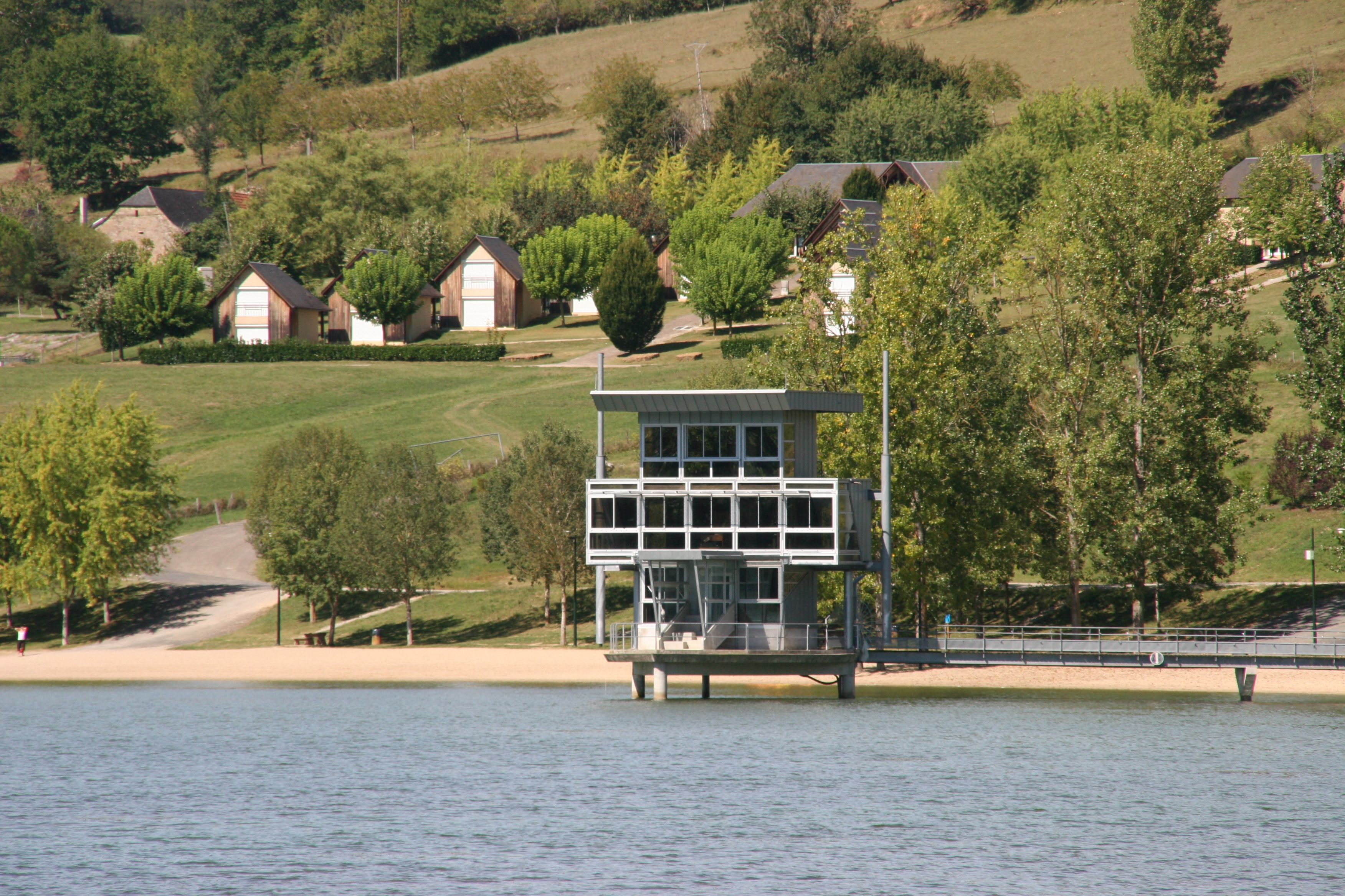 Lac du Causse: Race Tower